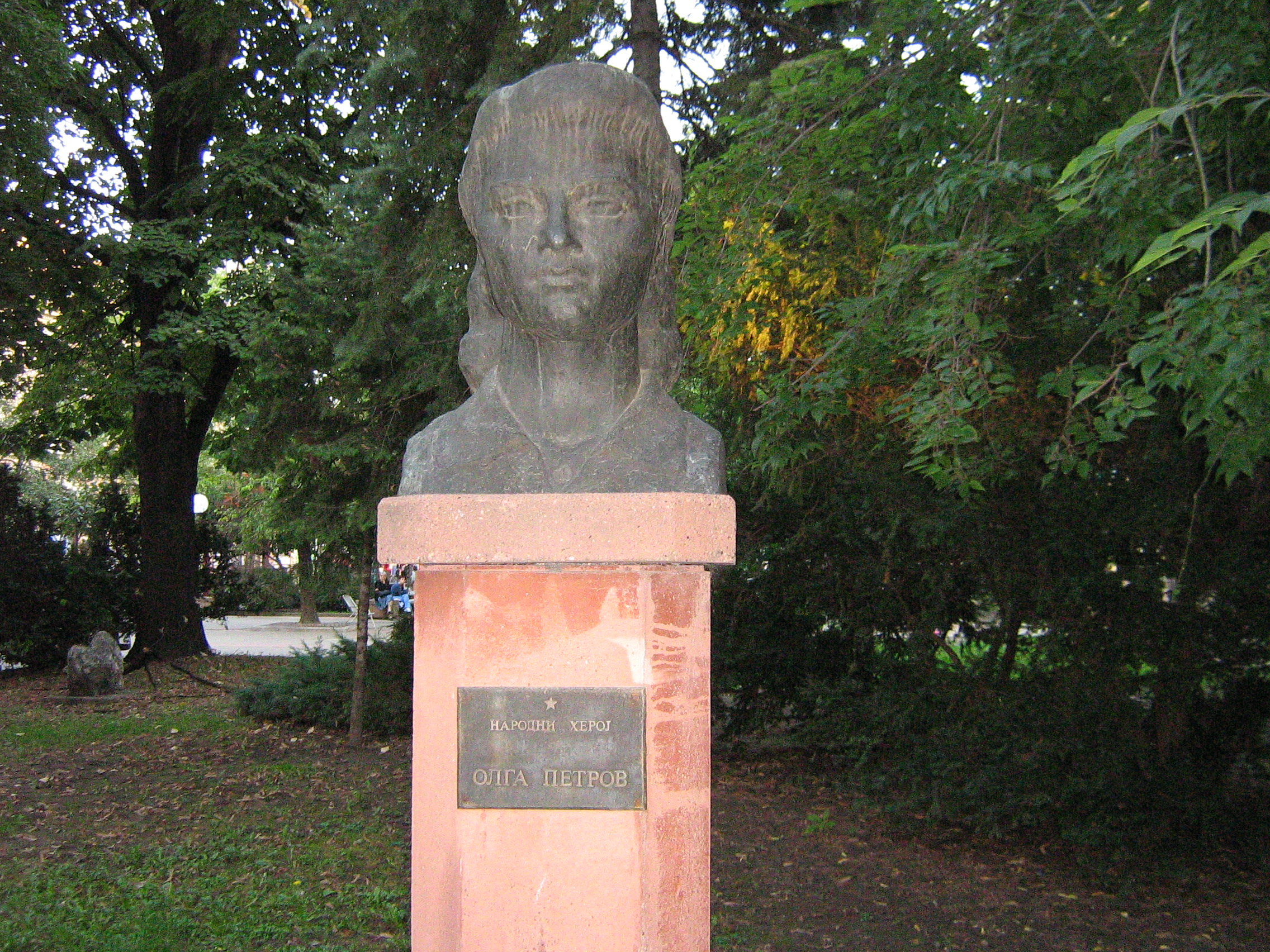 Bust of People's hero Olga Petrov, in Pančevo